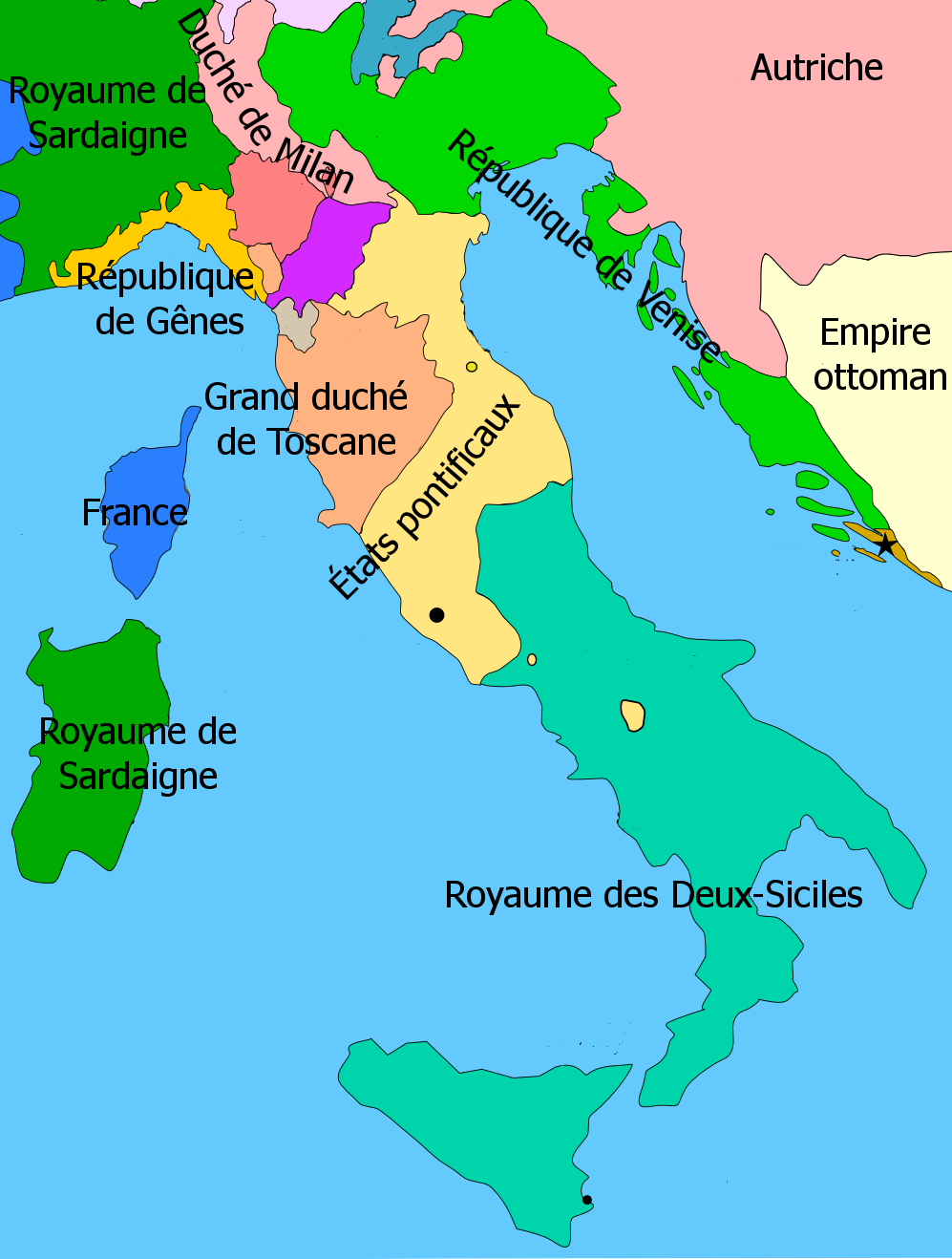 Italy in 1796